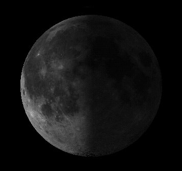 A waning moon.